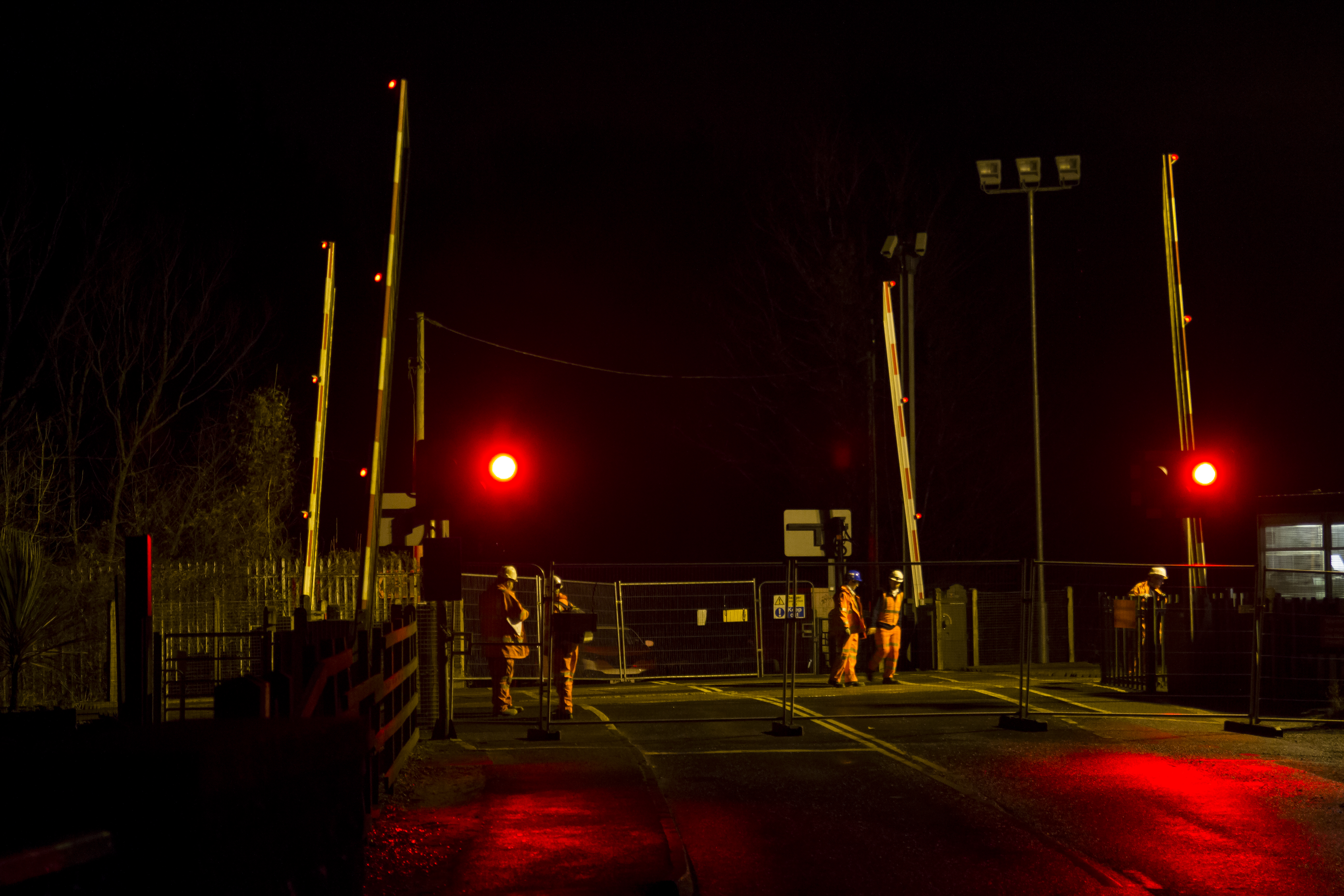 Over the 2016 Christmas and New Year period Network Rail undertook extensive work on the line between Newport and Bridgend in connection with the Cardiff Area Signalling Renewals scheme. The work necessitated the temporary closure of four level crossings (to road traffic) to the west of Cardiff, including the one at St Fagans. This picture shows the scene at St Fagans just after midnight on Christmas Day morning. Information on the local community council's website (supplied by Network Rail) described how the control of the level crossing at St Fagans was being transferred from the crossing itself (the building on the extreme right of the picture) to the Wales Route Operations Centre in Cardiff, and that the floodlighting on the crossing was being upgraded - .